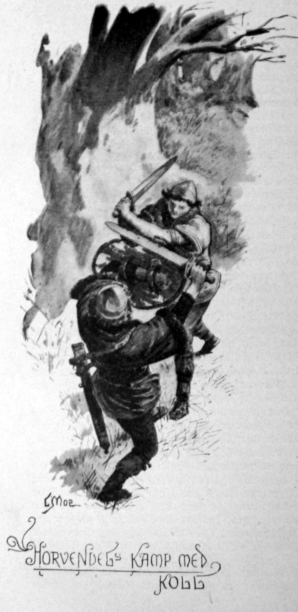 Hardvendels Kamp med Koll. The scene is described in Gesta Danorum in the following way: "After mutually pledging their faiths to these terms, they began the battle. Nor were their strangeness in meeting one another, nor the sweetness of that spring-green spot, so heeded as to prevent them from the fray. Horwendil, in his too great ardour, became keener to attack his enemy than to defend his own body; and, heedless of his shield, had grasped his sword with both hands; and his boldness did not fail. For by his rain of blows he destroyed Koller's shield and deprived him of it, and at last hewed off his foot and drove him lifeless to the ground." Elton's translation